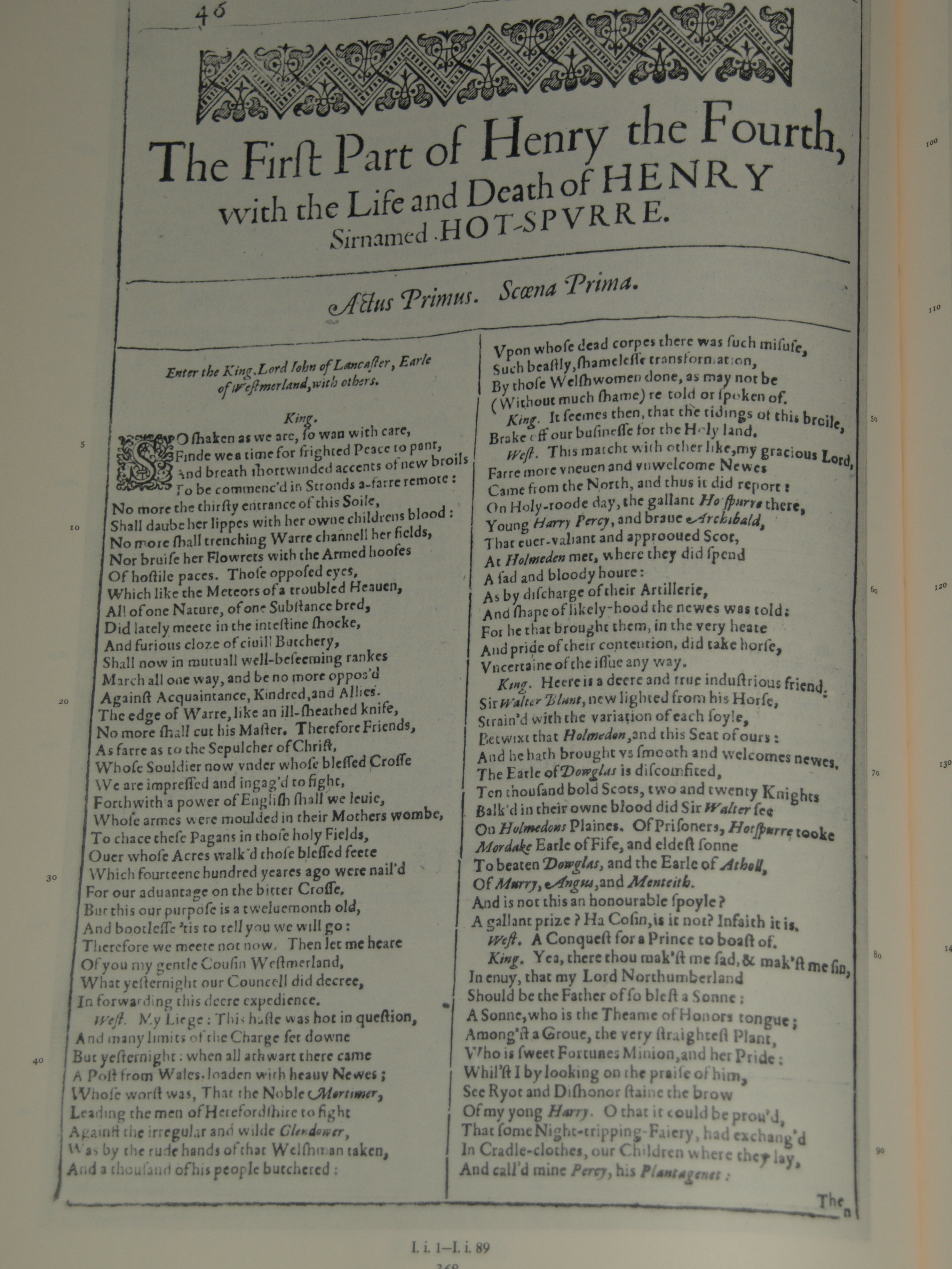 Photo of the first page of Henry the Fourth, Part One from a facsimile edition of the First Folio of Shakespeare's plays, published in 1623